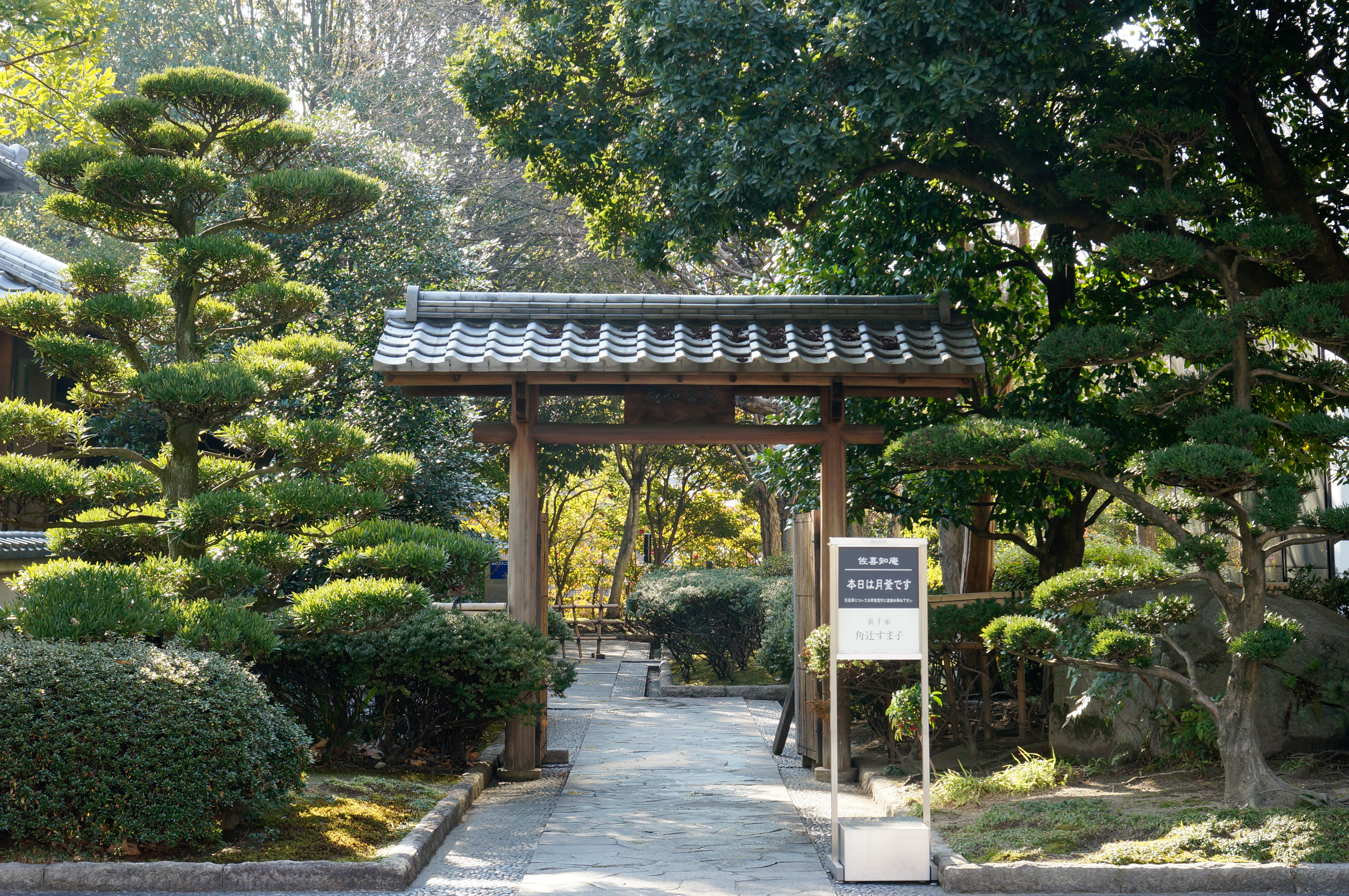 Kariya City Art Museum in Kariya, Aichi prefecture, Japan.